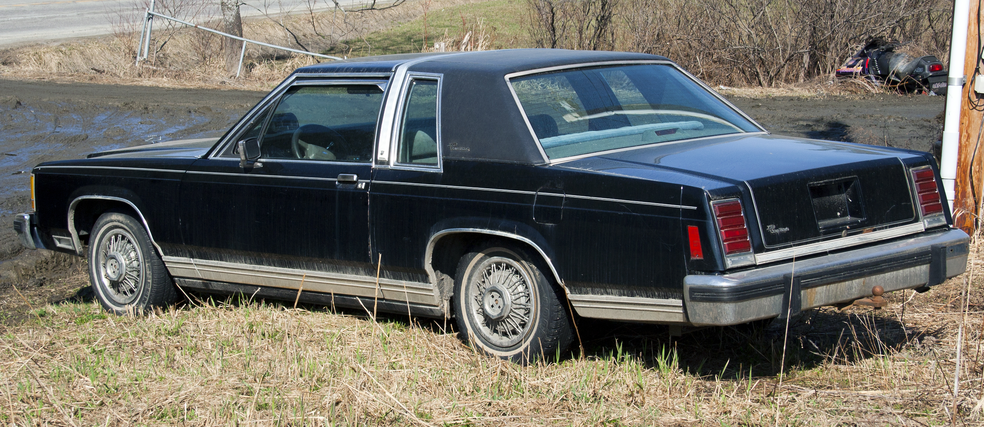 Rear view of 1983-1987 Ford LTD Crown Victoria Coupé